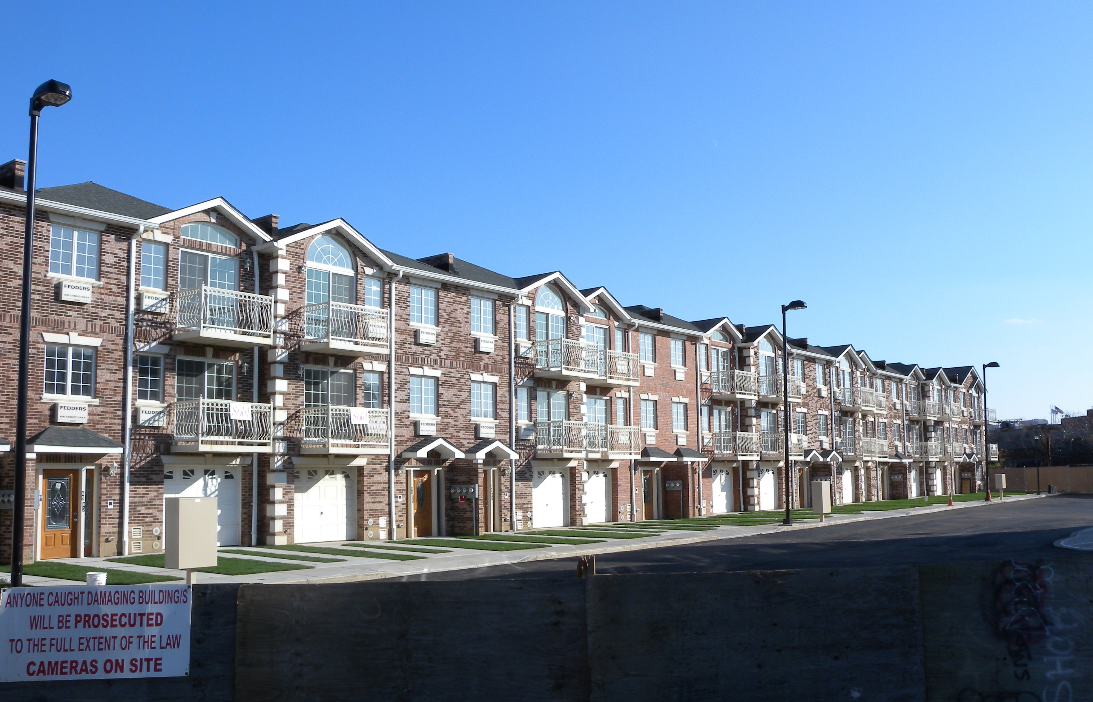 Looking southeast from foot of Admiral Avenue at new row houses northeast of the Fresh Pond LIRR yard and west of the BMT yard and shopping center on a sunny afternoon.